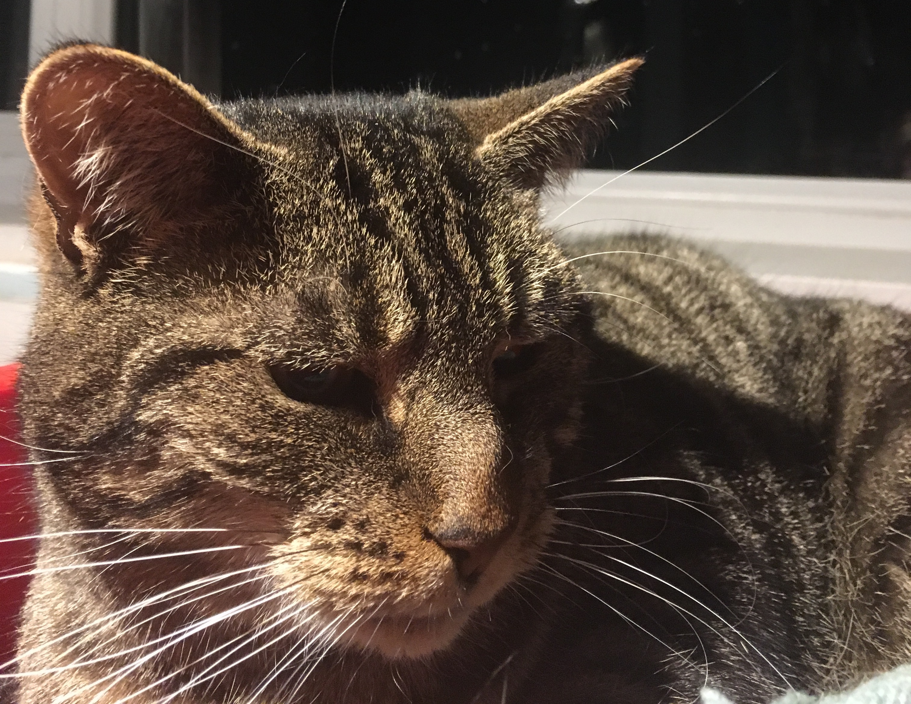 Oblique view of a tabby cat’s face